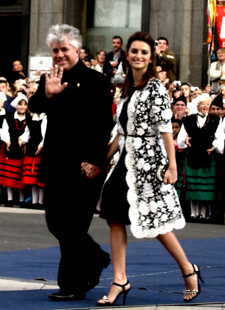 Spanish director Pedro Almodóvar and Penélope Cruz. Cropped from the source file.